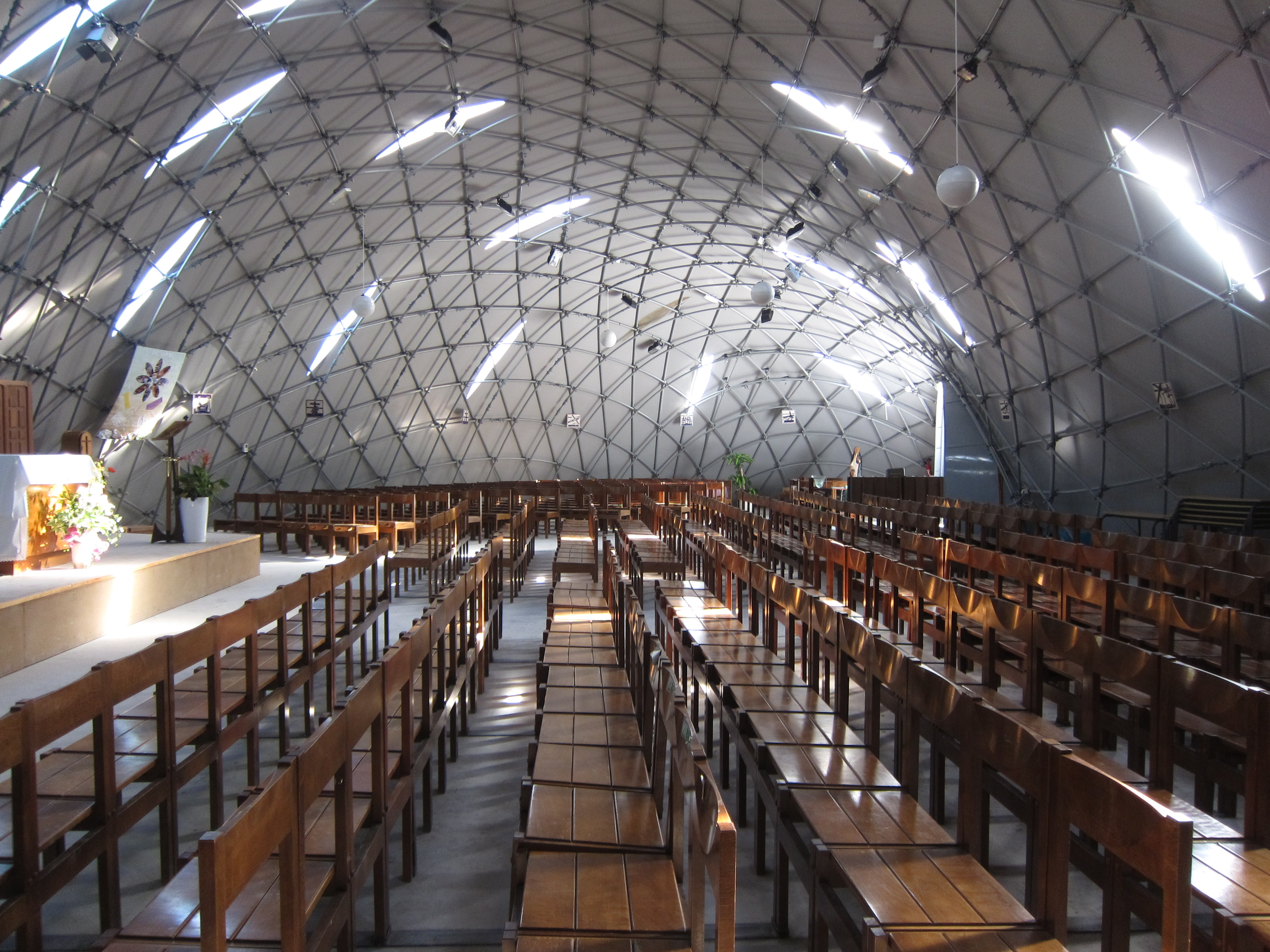 Ephemeral Cathedral: a 400m2 glassfibre elastic gridshell, Créteil, France, 2013